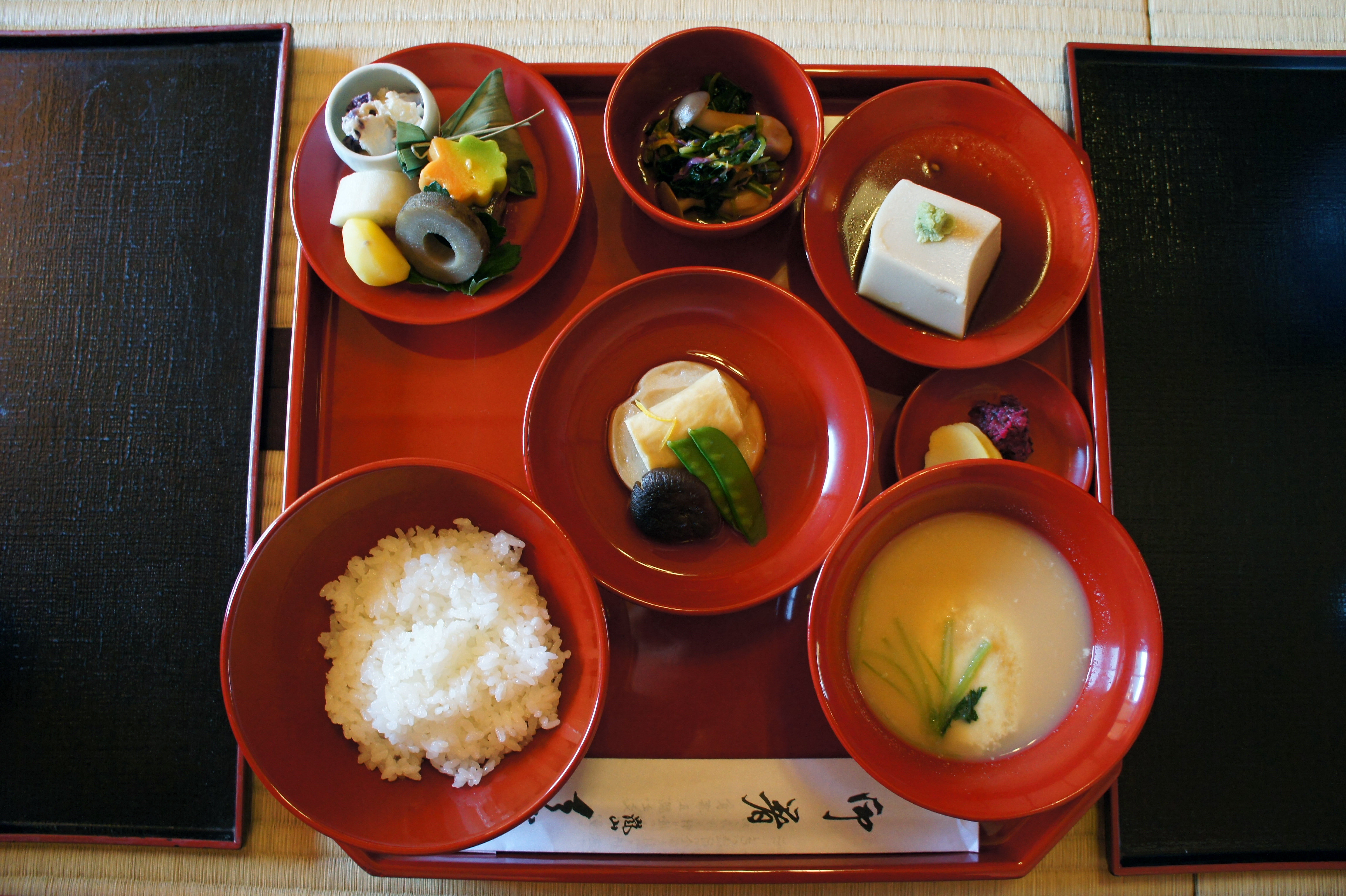 Tenryū-ji in Ukyō-ku, Kyoto, Kyoto prefecture, Japan